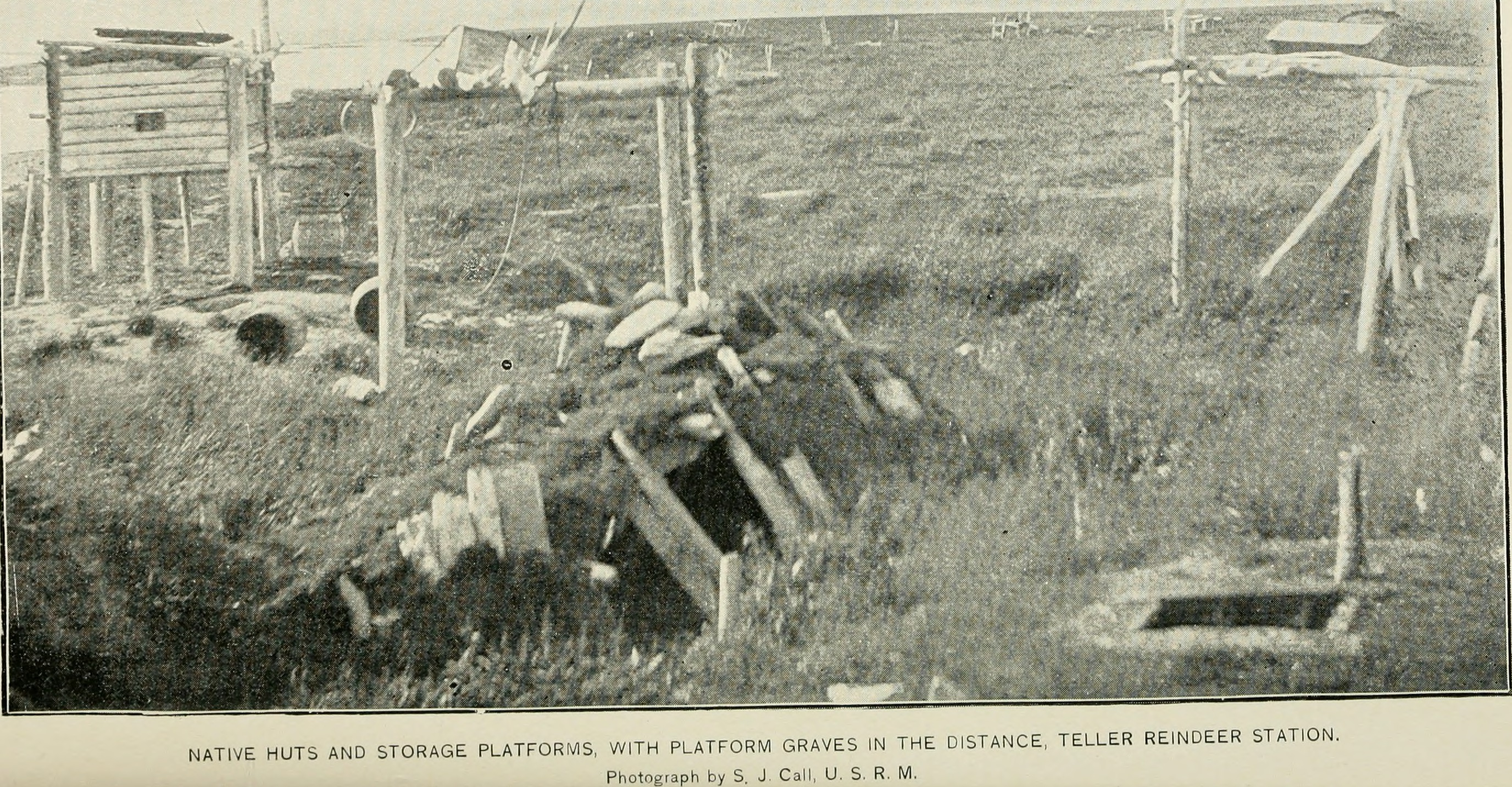 Title: Annual report on introduction of domesticated reindeer into Alaska Identifier: annualreportonin1894unit Year: 1890 (1890s) Authors: United States. Bureau of Education; Jackson, Sheldon, 1834-1909 Subjects: Reindeer; Eskimos -- Alaska; Alaska Publisher: Washington : Govt. print. off. Text Appearing Before Image: ' Text Appearing After Image: '